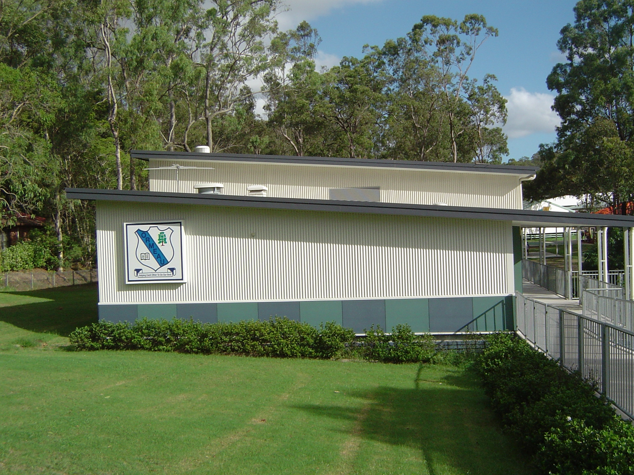 Photo of Ormeau State School at Pimpama, Queensland, Australia.